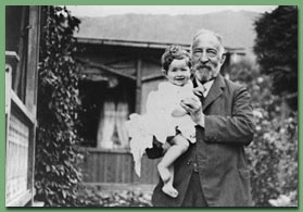 Hannah Arendt with her grandfather, Max Arendt